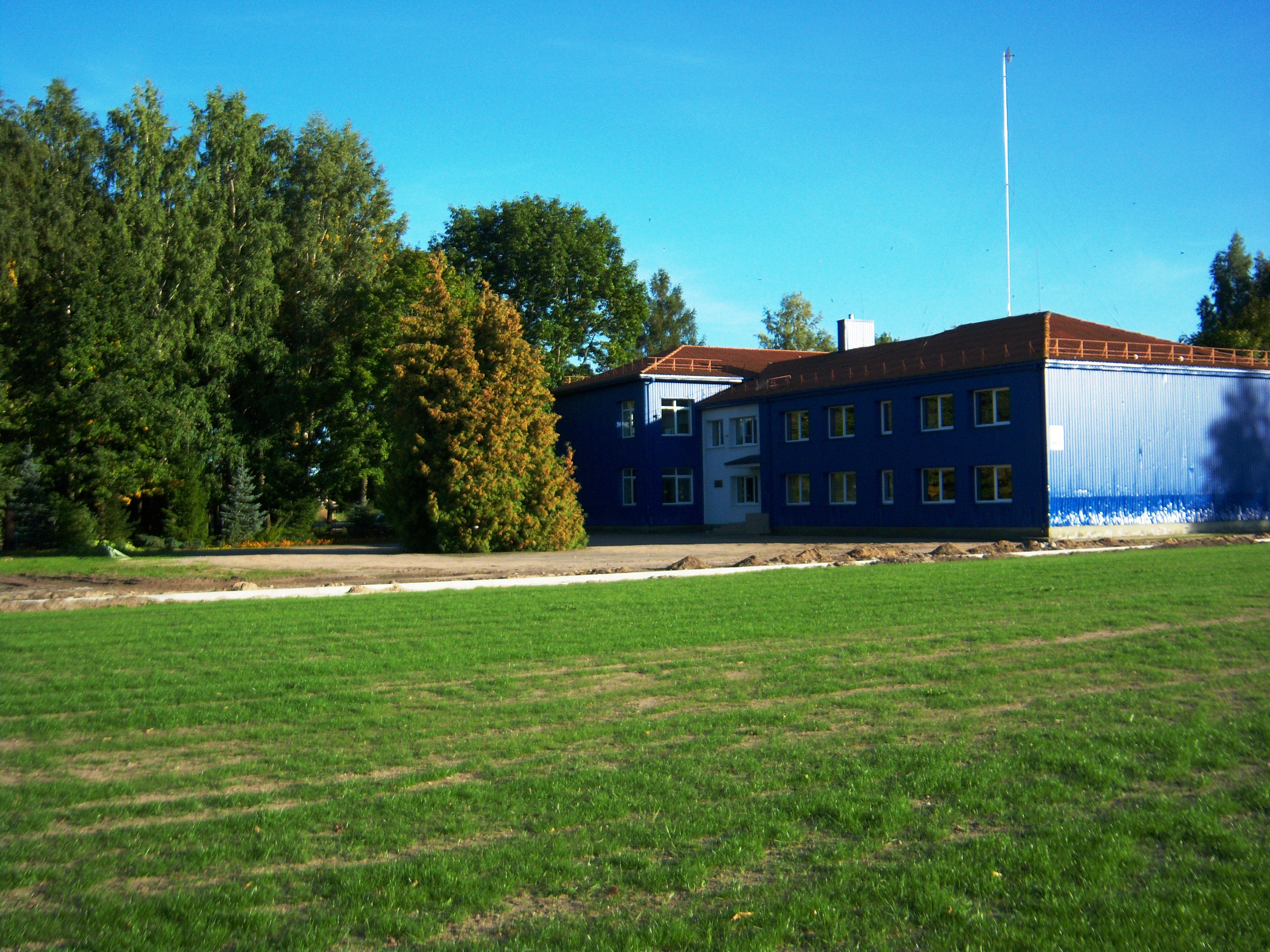 Basic school in Antanavas, Kazlų Rūda municipality, Lithuania